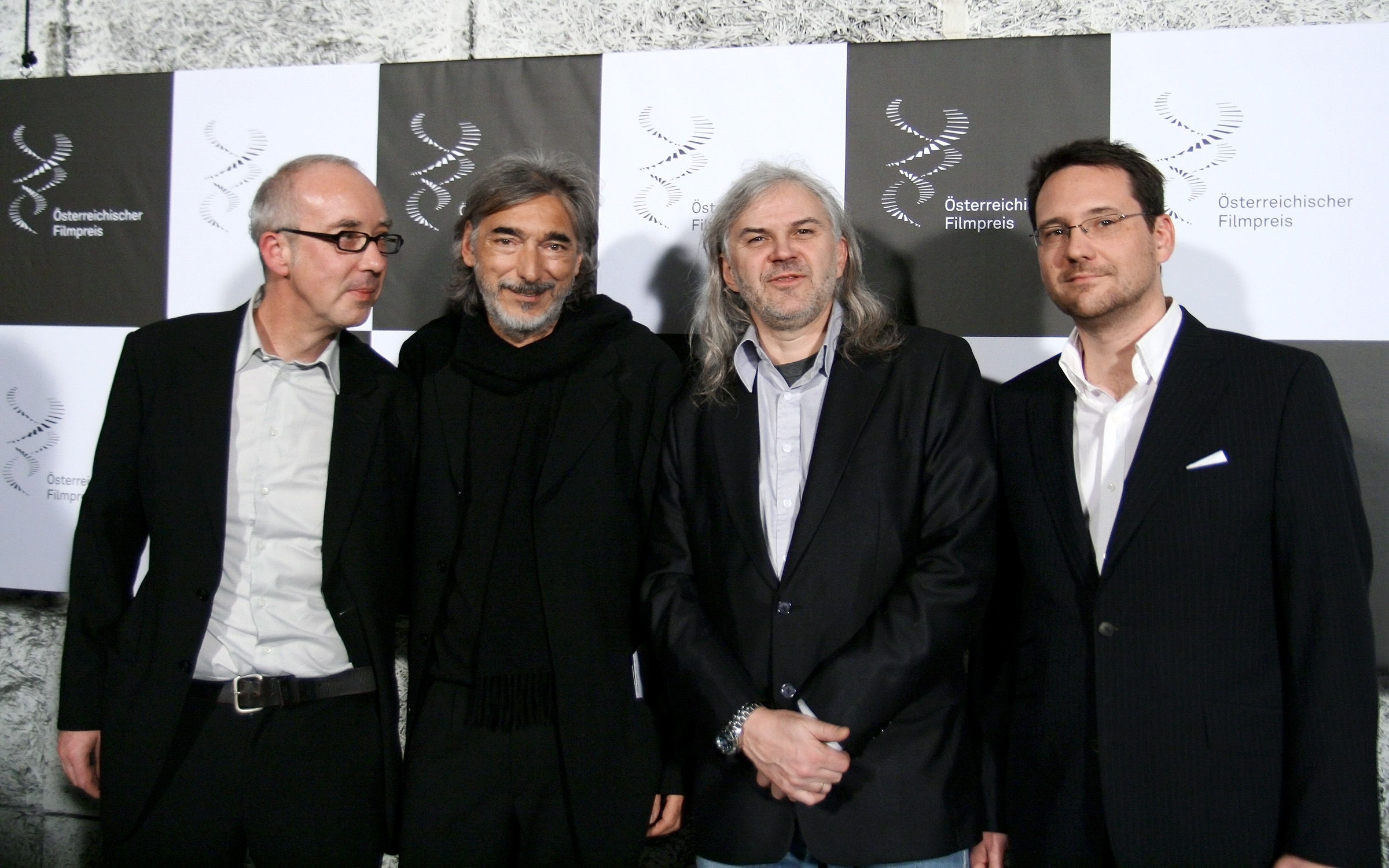 l.t.r.: Peter Wirthensohn, Wolfgang Thaler, Michael Glawogger and Tommy Pridnig; Austrian Film Awards 2012 (Vienna).